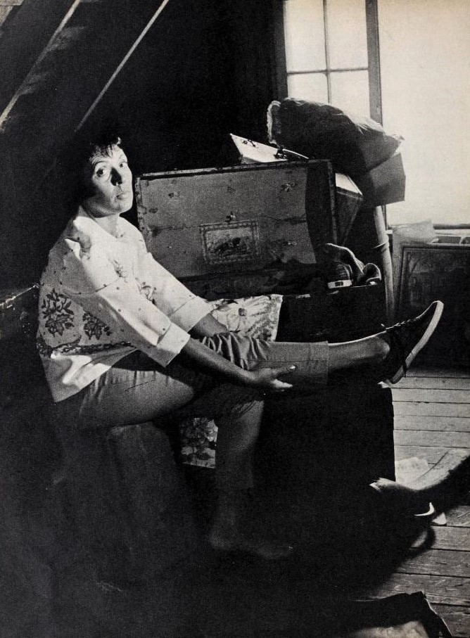 Portrait of Keely Smith, 1960